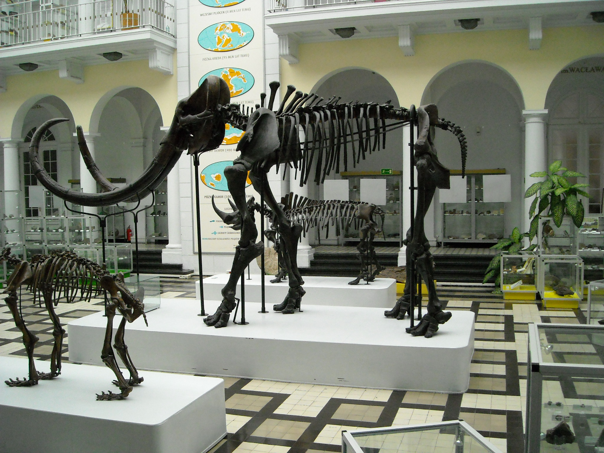 Woolly mammoth (Mammuthus primigenius) skeleton in the middle, cave bear (Ursus spelaeus) in the left and woolly rhinoceros (Coelodonta antiquitatis) in the background.